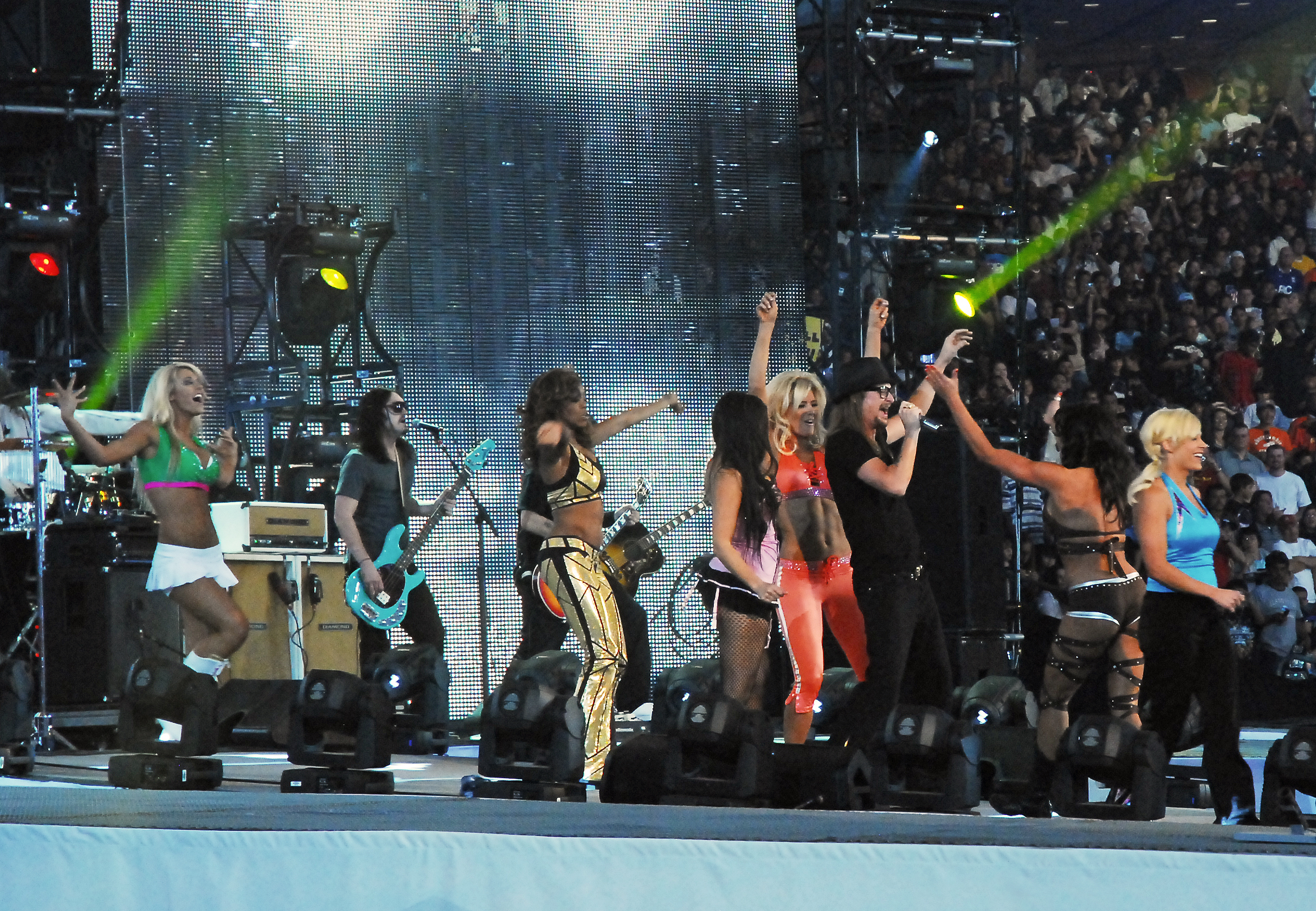 Kid Rock performing at WrestleMania 25 at Reliant Stadium in Houston, Texas on April 5, 2009. He performed during the entrances of the past and present WWE Divas, who went on to take part in a batle royal. Wrestlers shown (from left): Tiffany (aka Taryn Terrell, in green top), Alicia Fox (yellow top), Joy Giovanni (pink top with brown hair), Torrie Wilson (pink top with blonde hair), Miss Jackie (aka Jackie Gayda, brown top, back to camera), Molly Holly (in blue top)